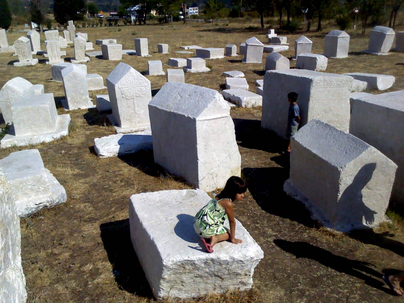 Radimlja, stecak necropolis located near Stolac, Bosnia and Herzegovina.